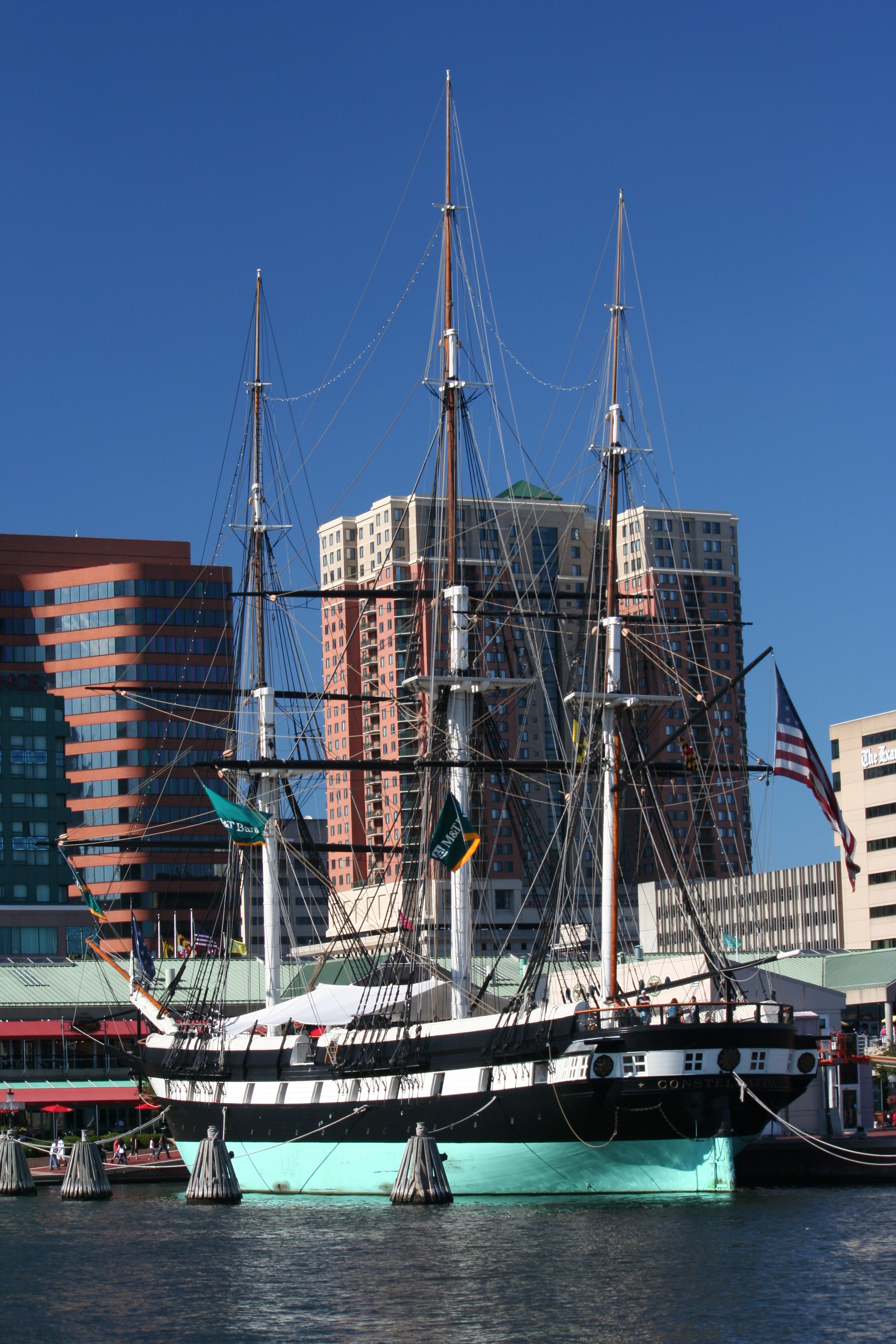 USS Constellation at Inner Harbor. Polarized filter used.